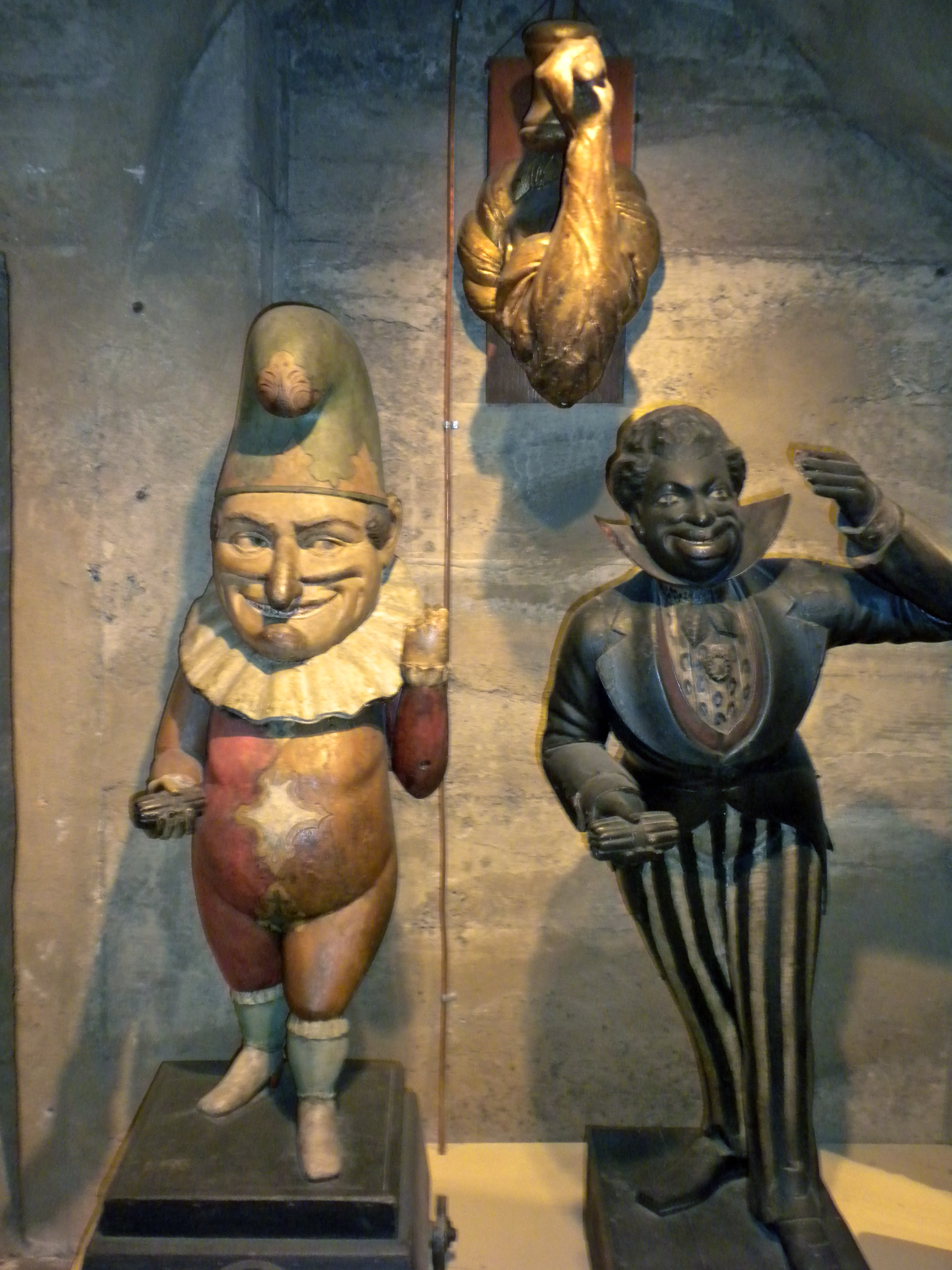 19th century cigar store figures from Mercer Museum in Doylestown, Pennsylvania. Not all such figures were "Cigar Store Indians". The middle figure, which is hard to see here, is an arm and hammer.